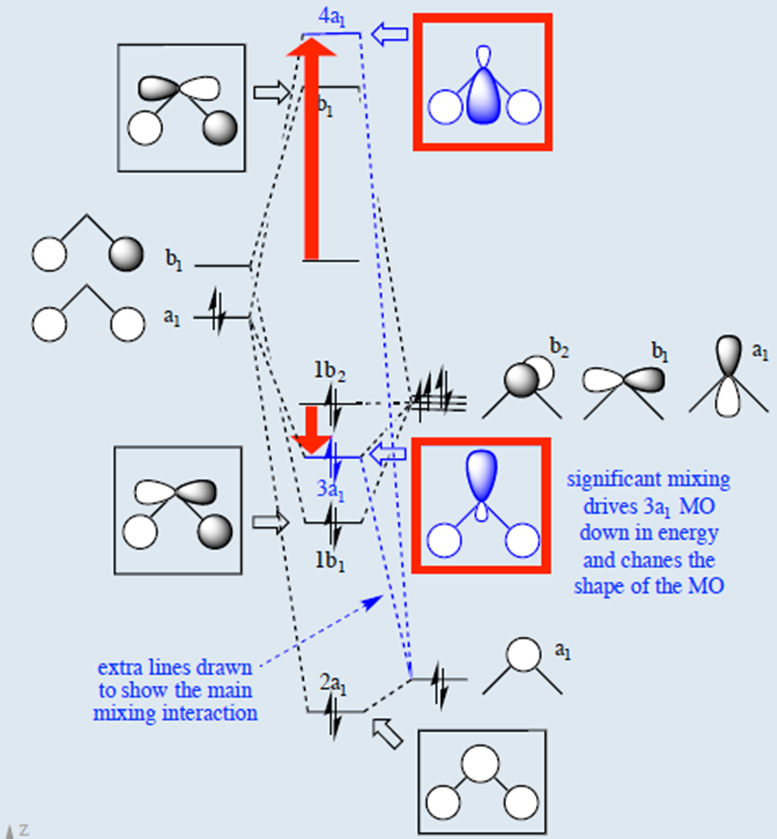 Hybridized MO H2O